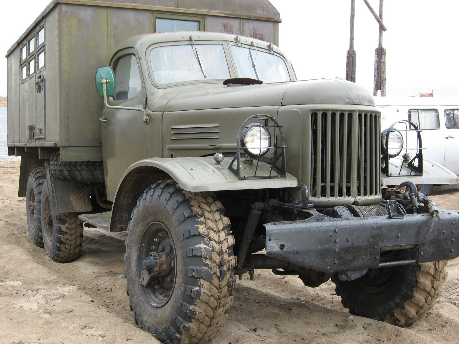 ZiL-157 truck in Russia.